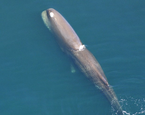 A sperm whale seen from above.